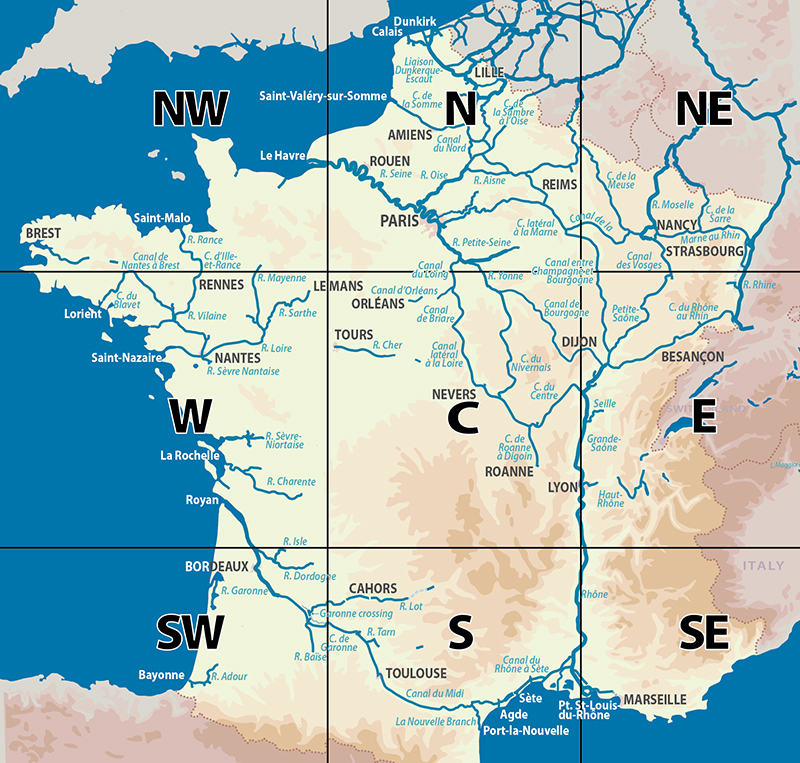 Replacement map in support of list of canals and waterways in France